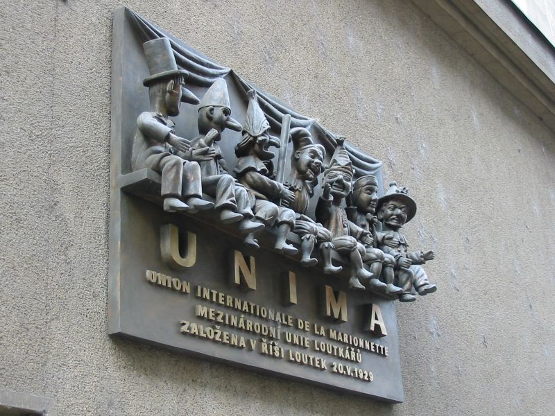 Memorial plaque commemorating the establishing of UNIMA in Prague in 1922 placed in Žatecká street at the building of the Říše loutek theatre.UNIMA Memorial plaque